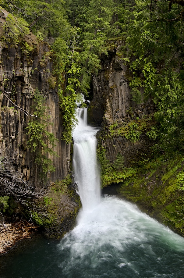 This waterfall is located near milepost 59 on Oregon highway 138. From the parking area, take the half-mile trail, up about 100 steps and down 130, to the observation deck. This is steep, rugged country. To get a better vantage point, you would need climbing skills and ropes. Or a helicopter. This is a single exposure, with some detail in the whitewater augmented by blending in a shorter exposure.